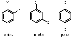 Description: Scheme of benzene diderivatives substitution patterns Source: own work Date: 11-01-2007 Author: MOstrows